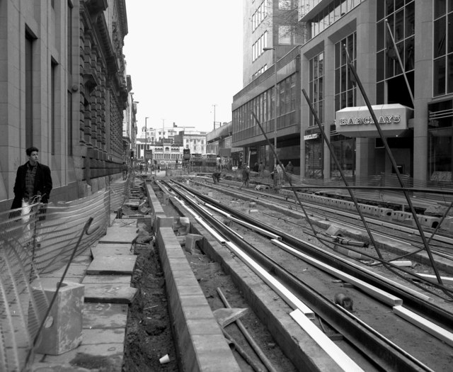 Mosley Street, Manchester Looking north east t the north end towards Piccadilly Gardens where there will be a Delta junction.